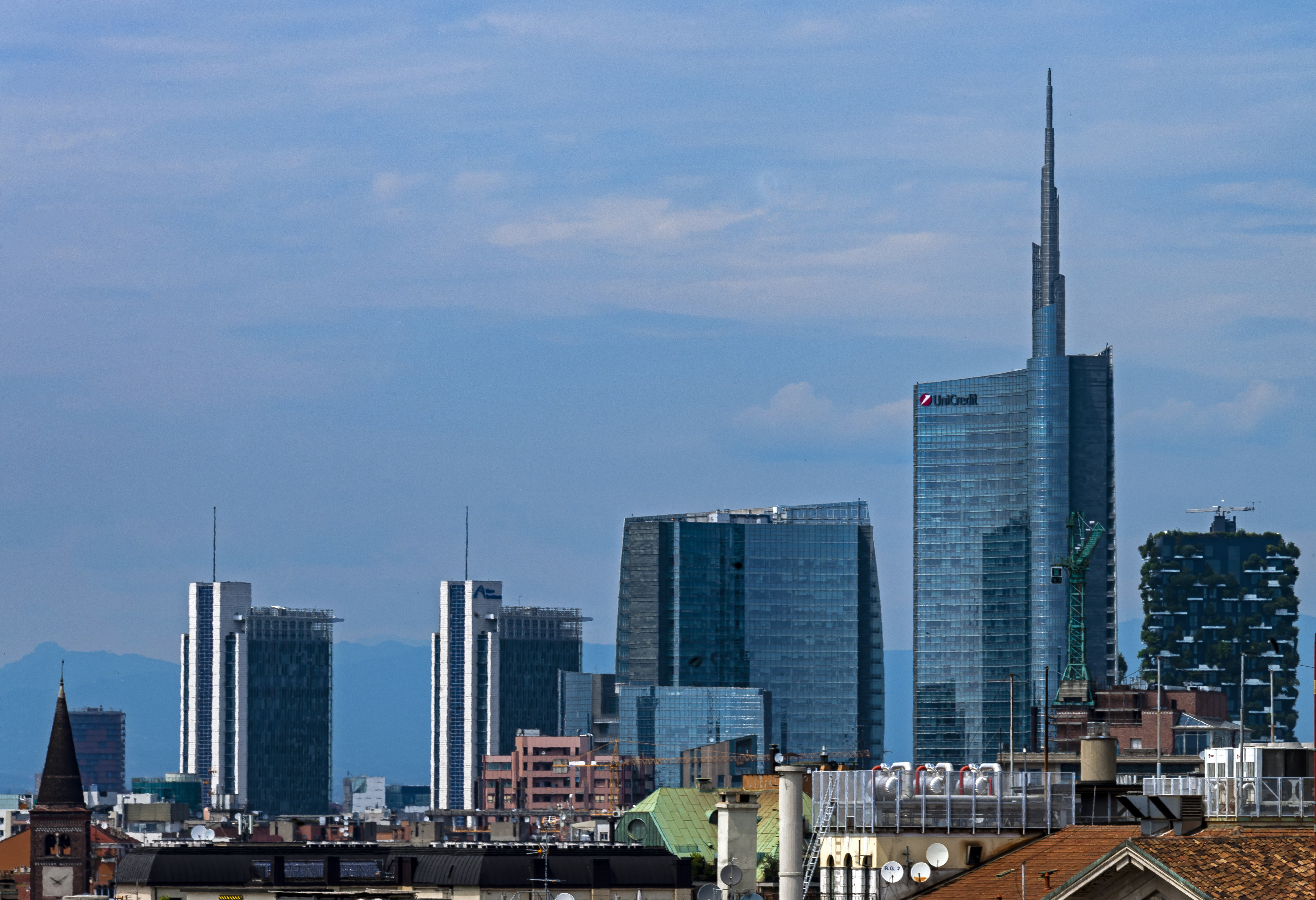 View of the Porta Nuova area skyline from the Duomo in Milan.